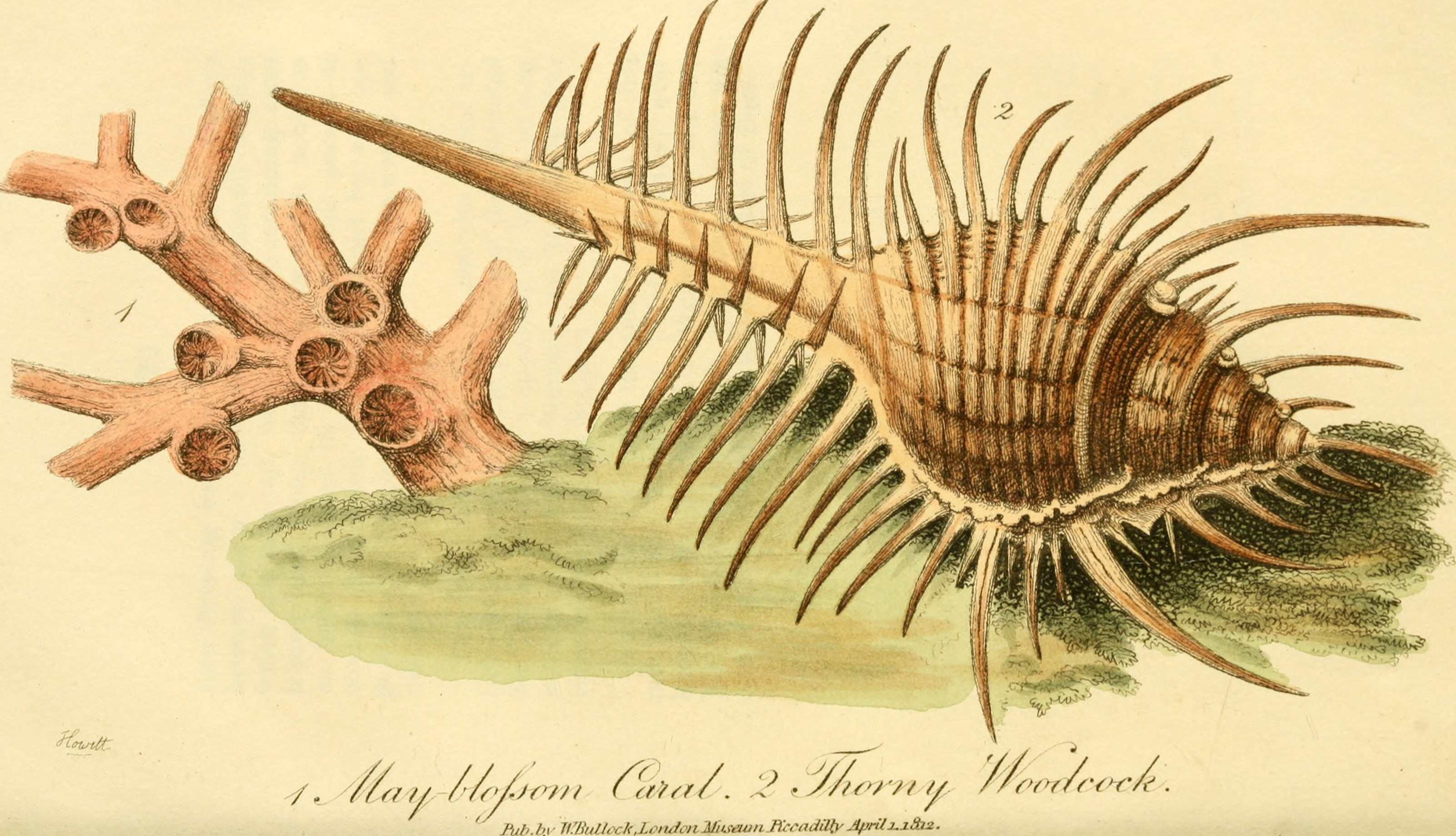 Title: A companion to Mr. Bullock's London Museum and Pantherion : containing a brief description of upwards of fifteen thousand natural and foreign curiosities, antiquities, and productions of the fine arts, collected during seventeen years of arduous research, and at an expense of thirty thousand pounds : and now open for public inspection in the Egyptian Temple, just erected for its reception, in Piccadilly, London, opposite the end of Bond-Street Year: 1812 (1810s) Authors: Bullock, W. (William), fl. 1808-1828; Howitt, Samuel, 1765?-1822, ill; Wells, John West, 1907- , former owner. DSI Subjects: London Museum (1812-1819); Zoology Publisher: (London) : Printed for the proprietor Text Appearing Before Image: ' Text Appearing After Image: '